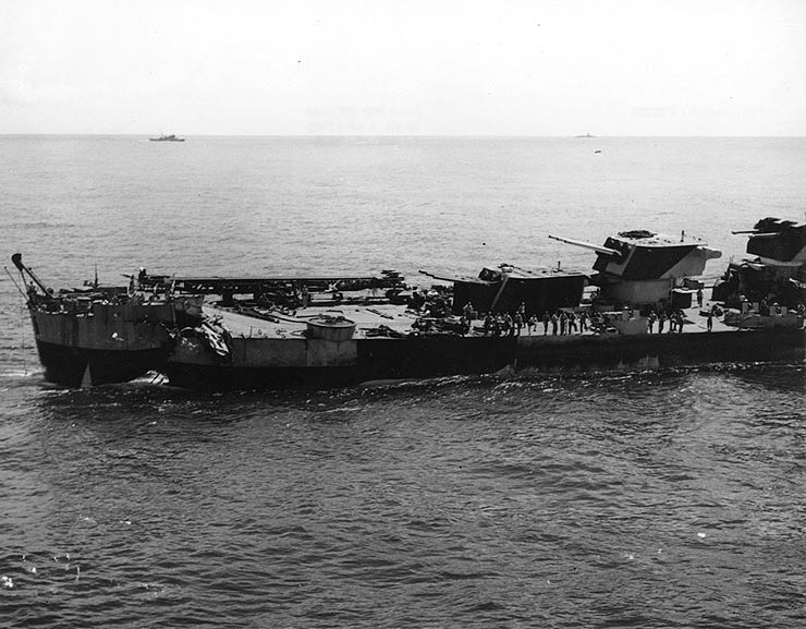 USS Houston (CL-81). View of the ship's torpedo-damaged stern, taken while she was under tow toward Ulithi Atoll in October 1944. Houston was hit by two Japanese aerial torpedos during operations off Formosa. The first struck her amidships on 14 October and the second hit her starboard quarter on 16 October.